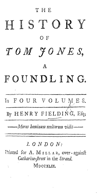 The History of Tom Jones, a Foundling (1749) by Henry Fielding (1707-1754)